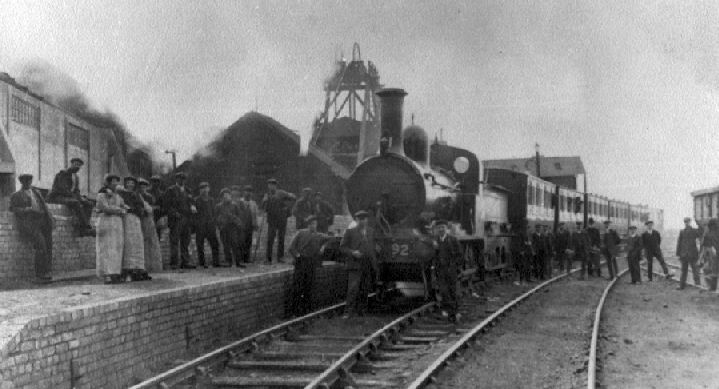 Passenger train at Lowca Railway Station consisting of Furness Railway Company's steam locomotive No 92 and five coaches. The photo was probably taken in 1913, when the passenger service commenced.